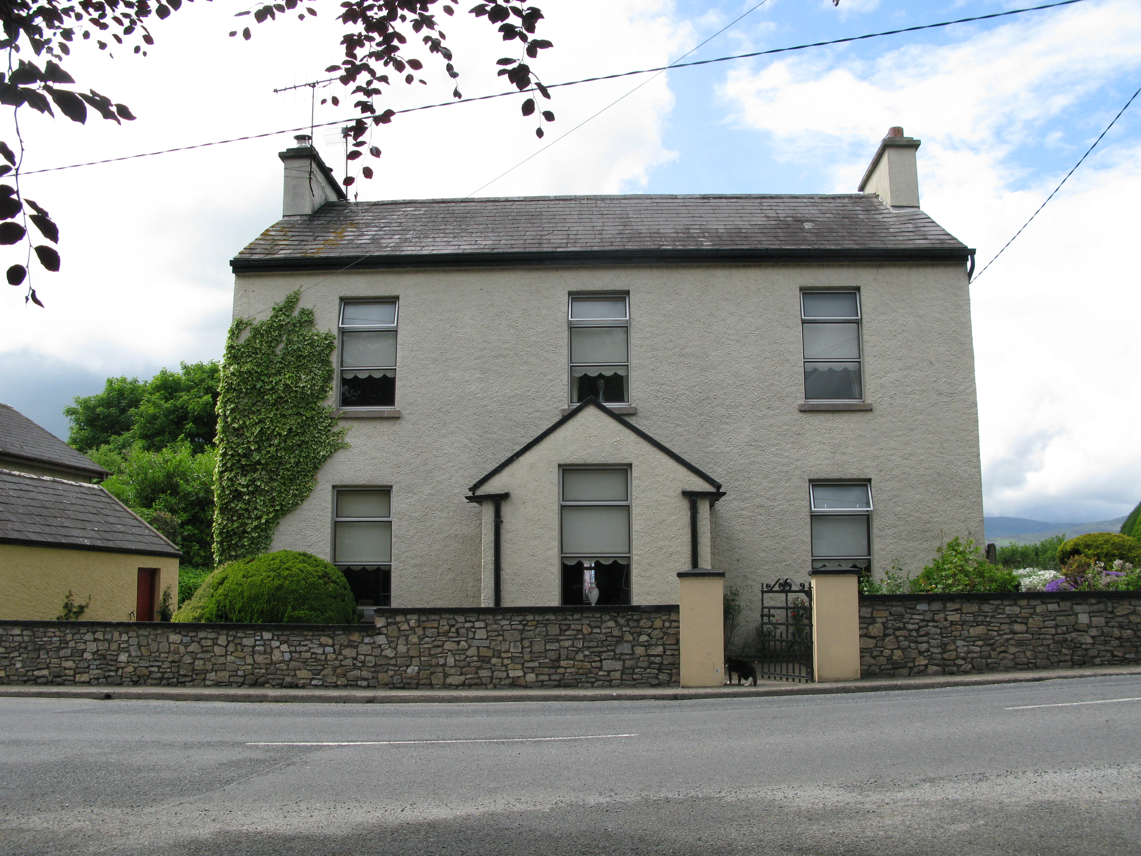 Village RIC barracks, Ballylooby approx. from 1865 until 1919. Image from 2010.